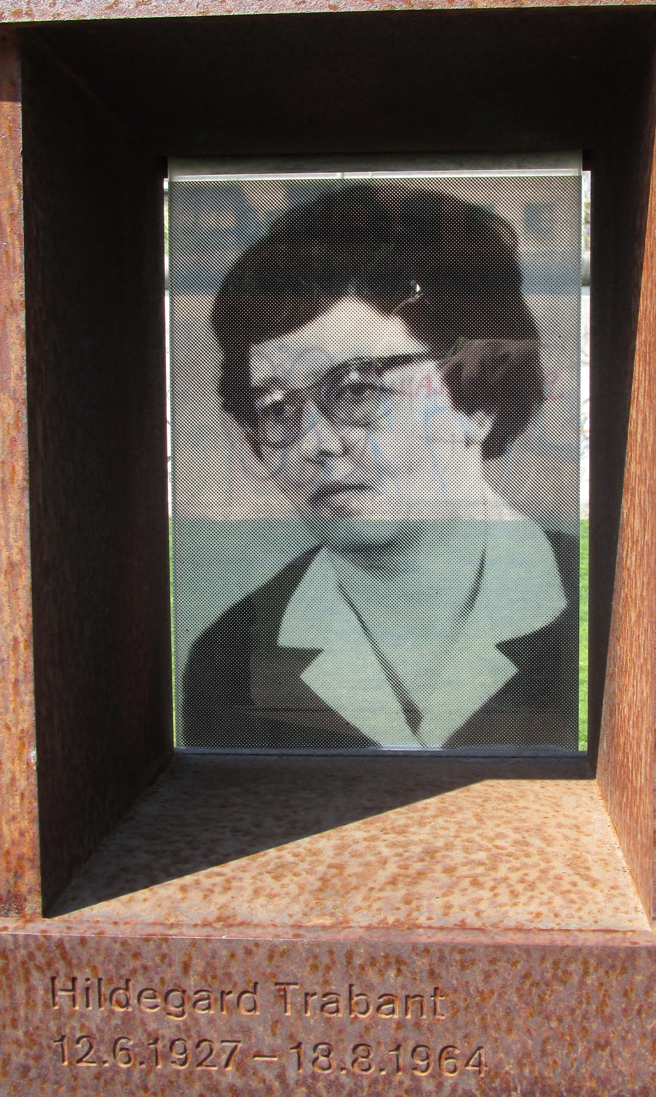 Hildegard Trabant's photo. I took the picture myself at the Berlin Wall Memorial on Bernauer Strasse, in Berlin